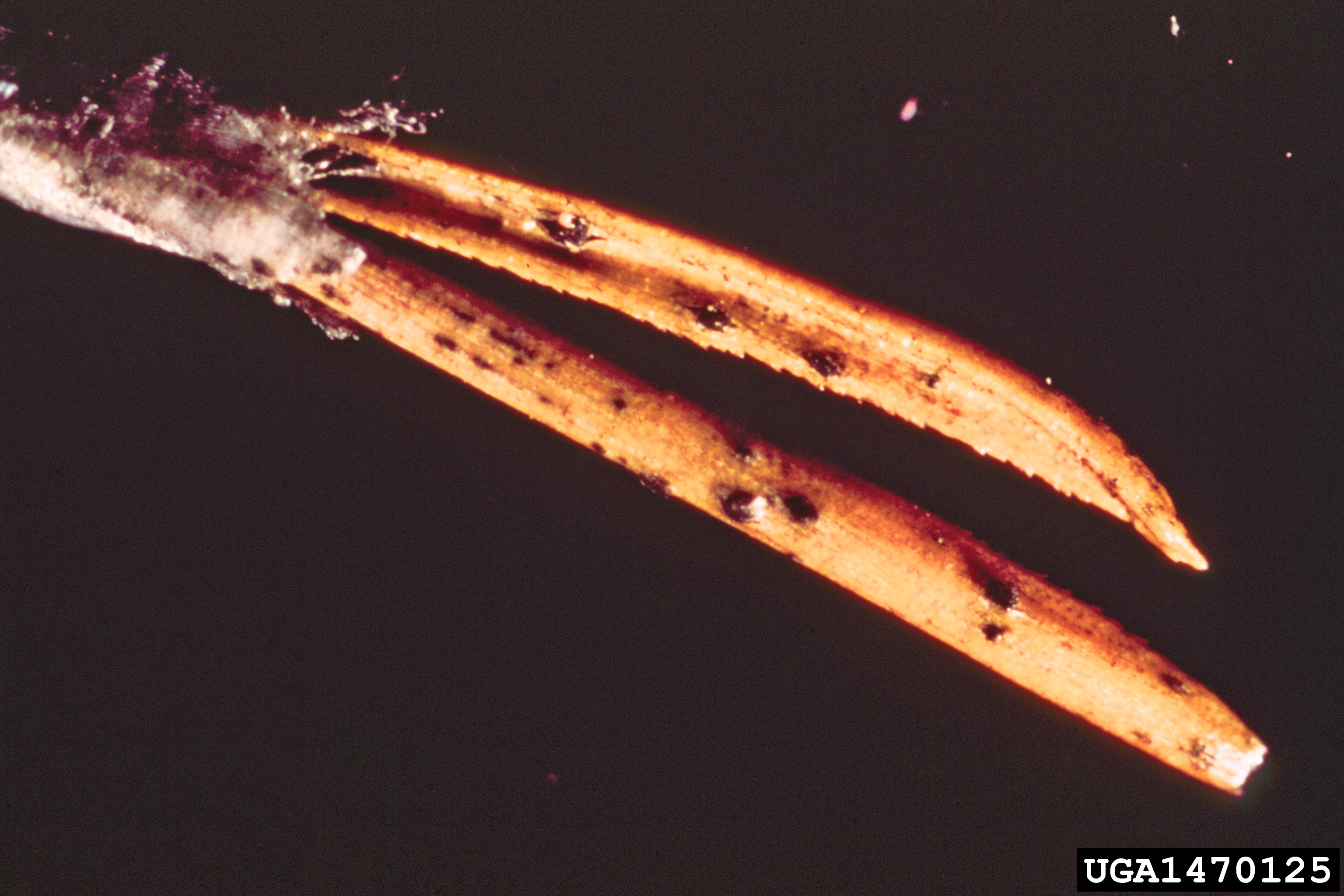 Pycnidia on needles of a red pine (Pinus resinosa Soland); December 1970, Chippewa National Forest, Utah, United States